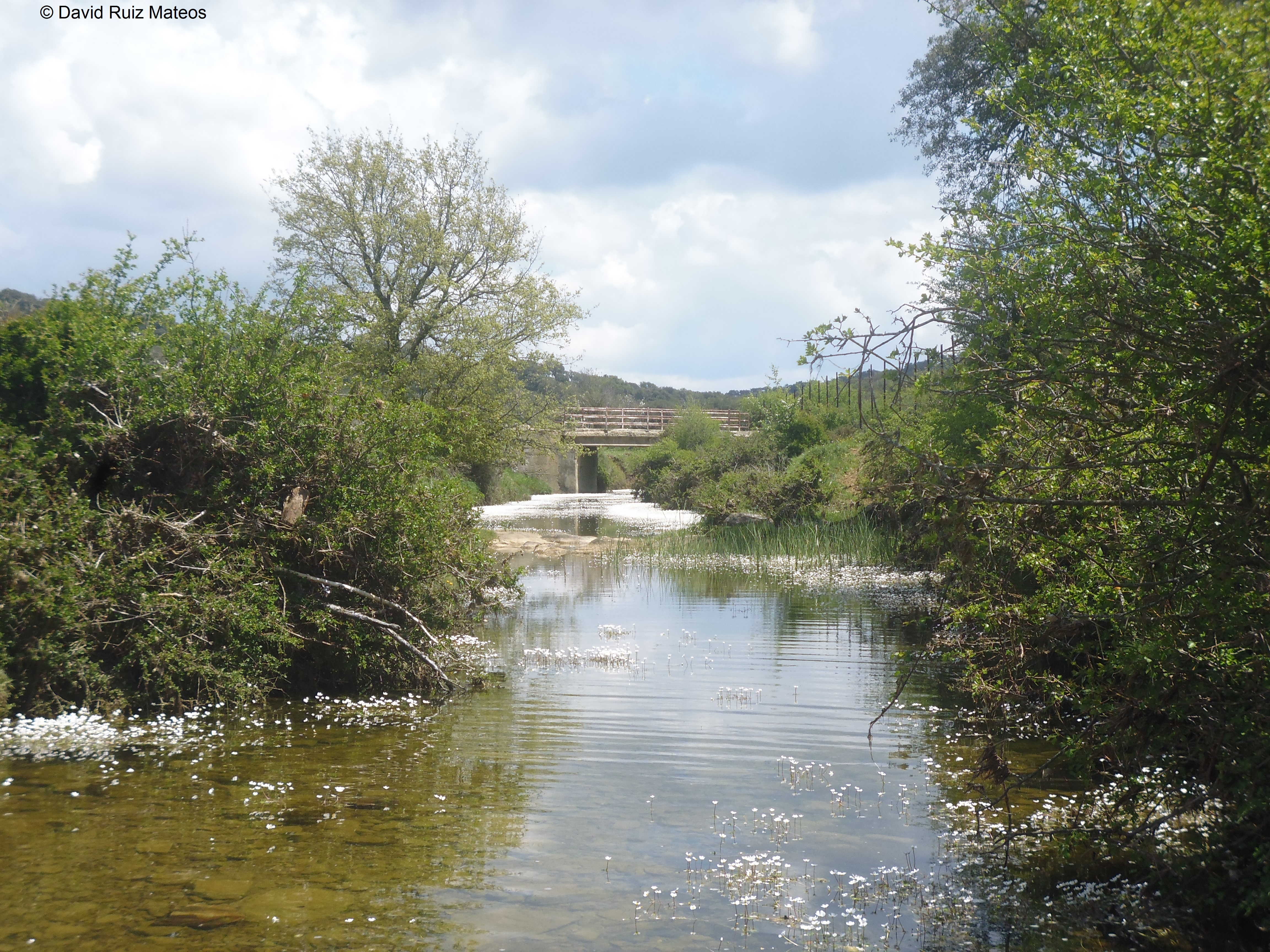 This is an image of the Biosphere Reserve or a Geopark: Sierra de Grazalema Natural Park